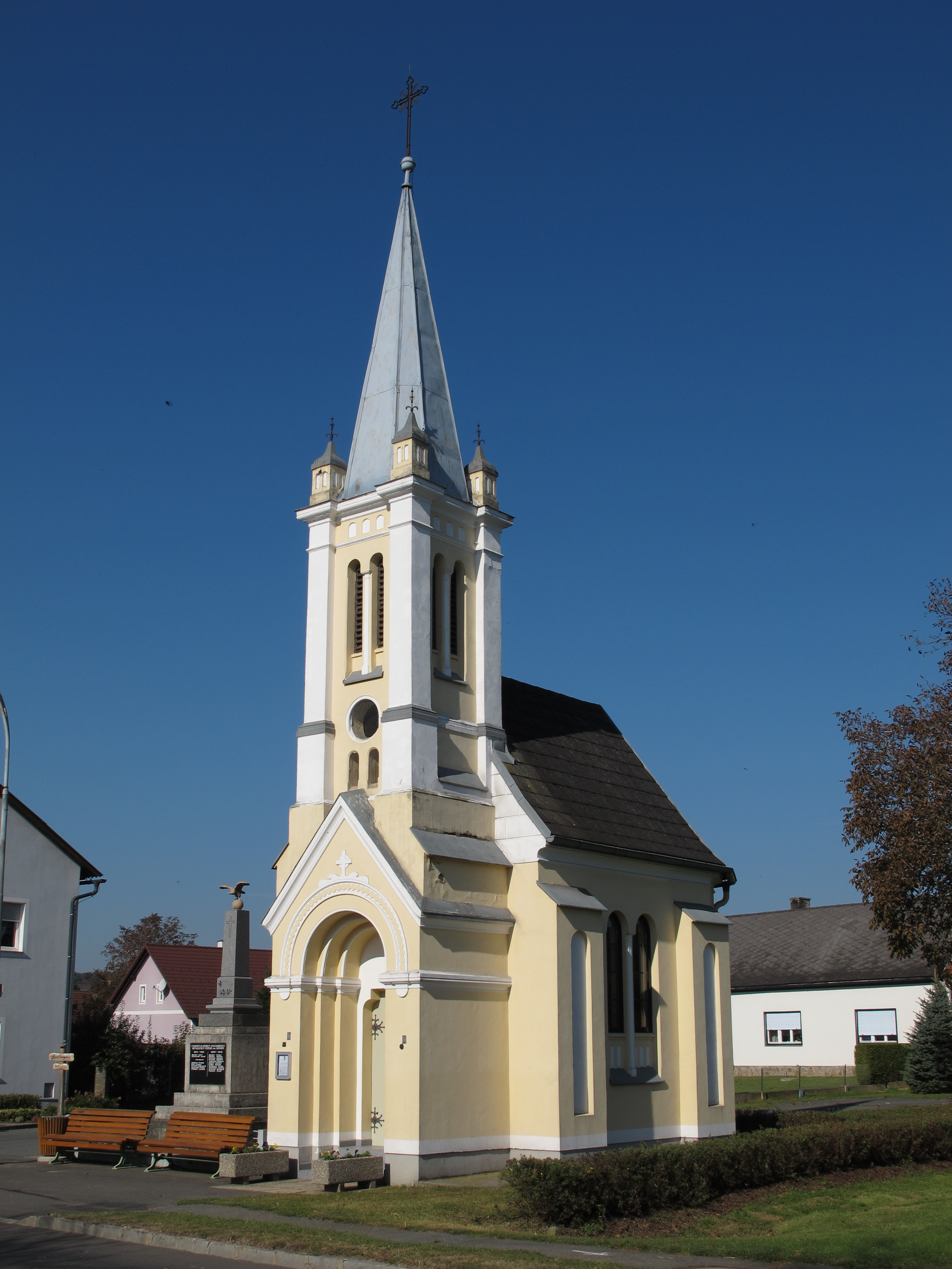 Ortskapelle Weichselbaum